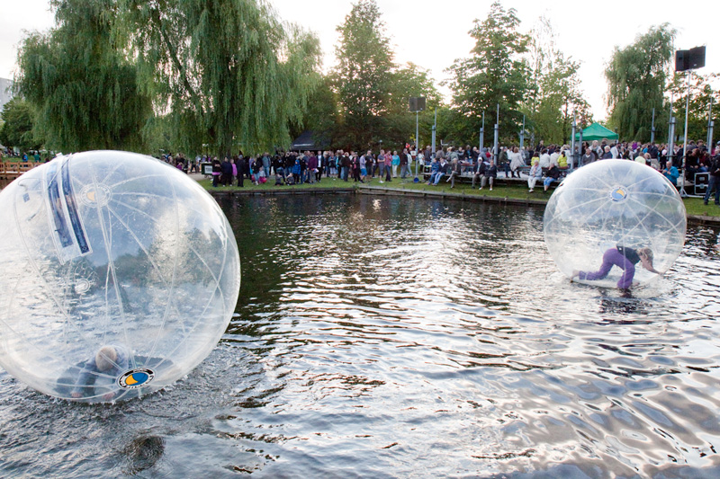 Kids have fun with waterballs in Madsby Parken, Fredericia, Denmark